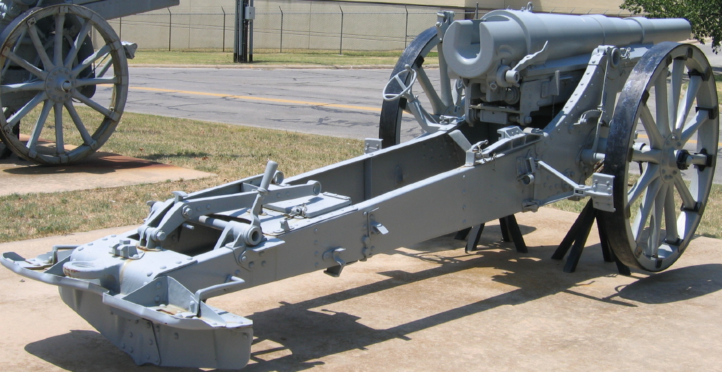 rear view of a German 10 cm Kanone 04 at Ft. Sill, OK